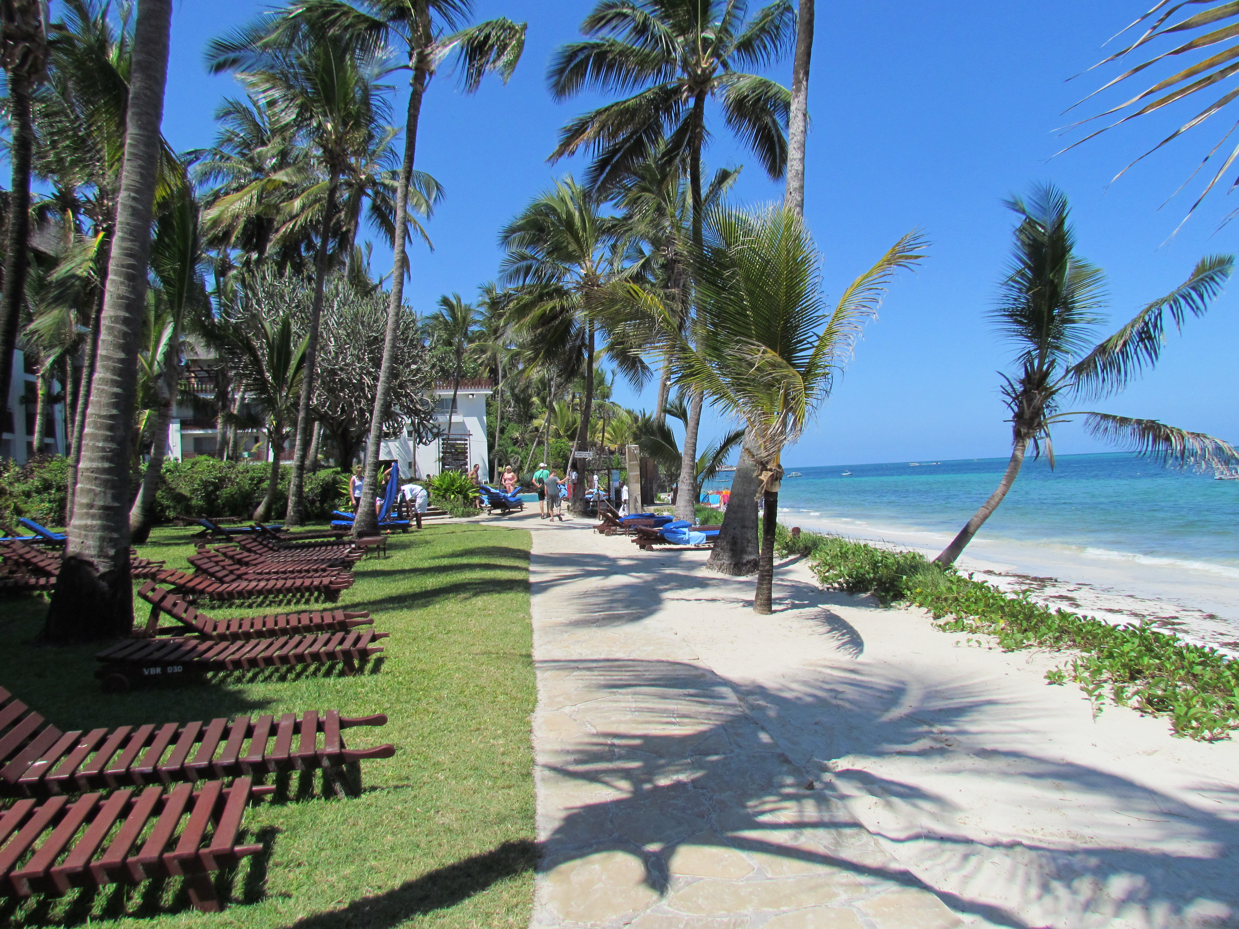 A view of Nyali Beach